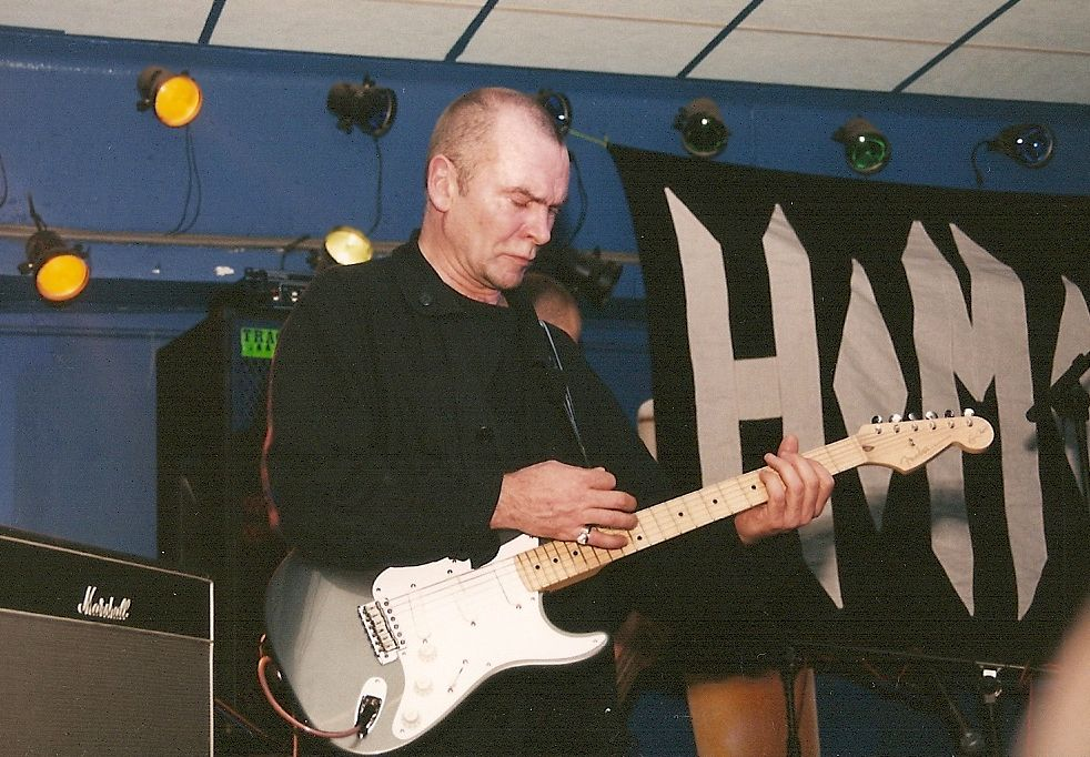 Waglewski in Homo Twist concert